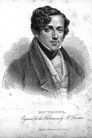 Portrait of Giacomo Meyerbeer, c. 1825